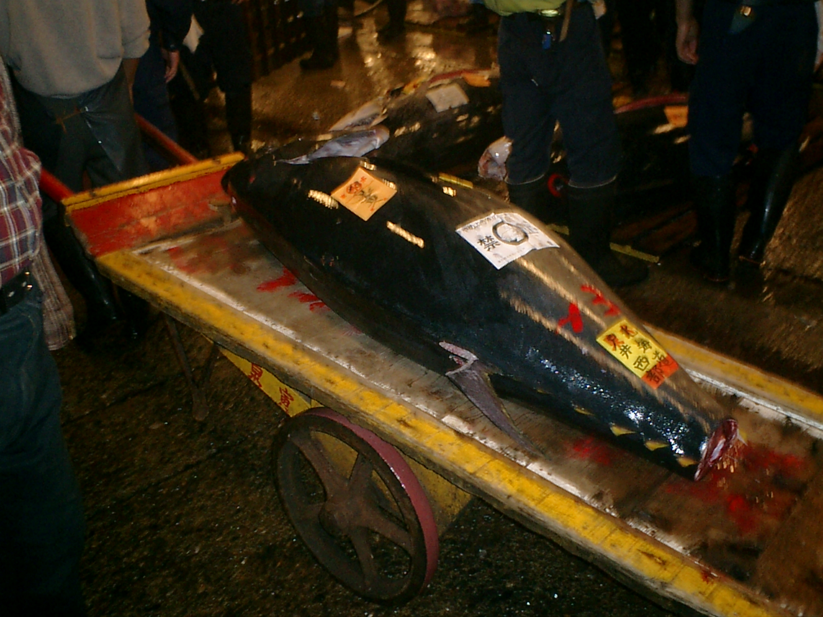 Tsukiji fish market in Tokyo, Japan